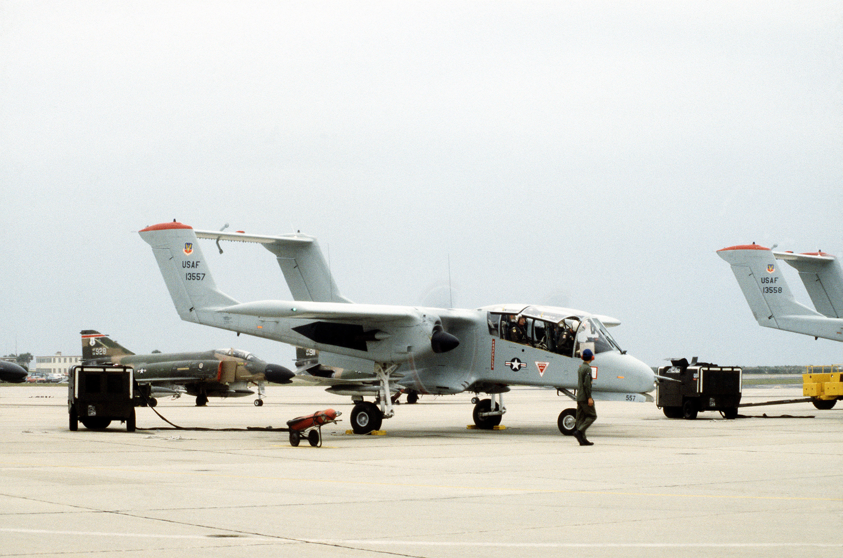 Two U.S. North American OV-10A-1-NH Broncos of the Missouri Air National Guard ready to taxi out to the runway at Patrick Air Force Base, Florida, USA. They were attached to the 110th Tactical Fighter Squadron. Both aircraft (s/n 66-13557, 66-13558) were later sold to the Venezuelan Air Force as FAV 4523 and FAV 0068. In the background is the McDonnell Douglas F-4C-25-MC Phantom II (s/n 64-0928) which was retired to AMARC as FP0077 on 20 May 1987.